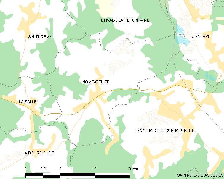 Map of French municipality Nompatelize